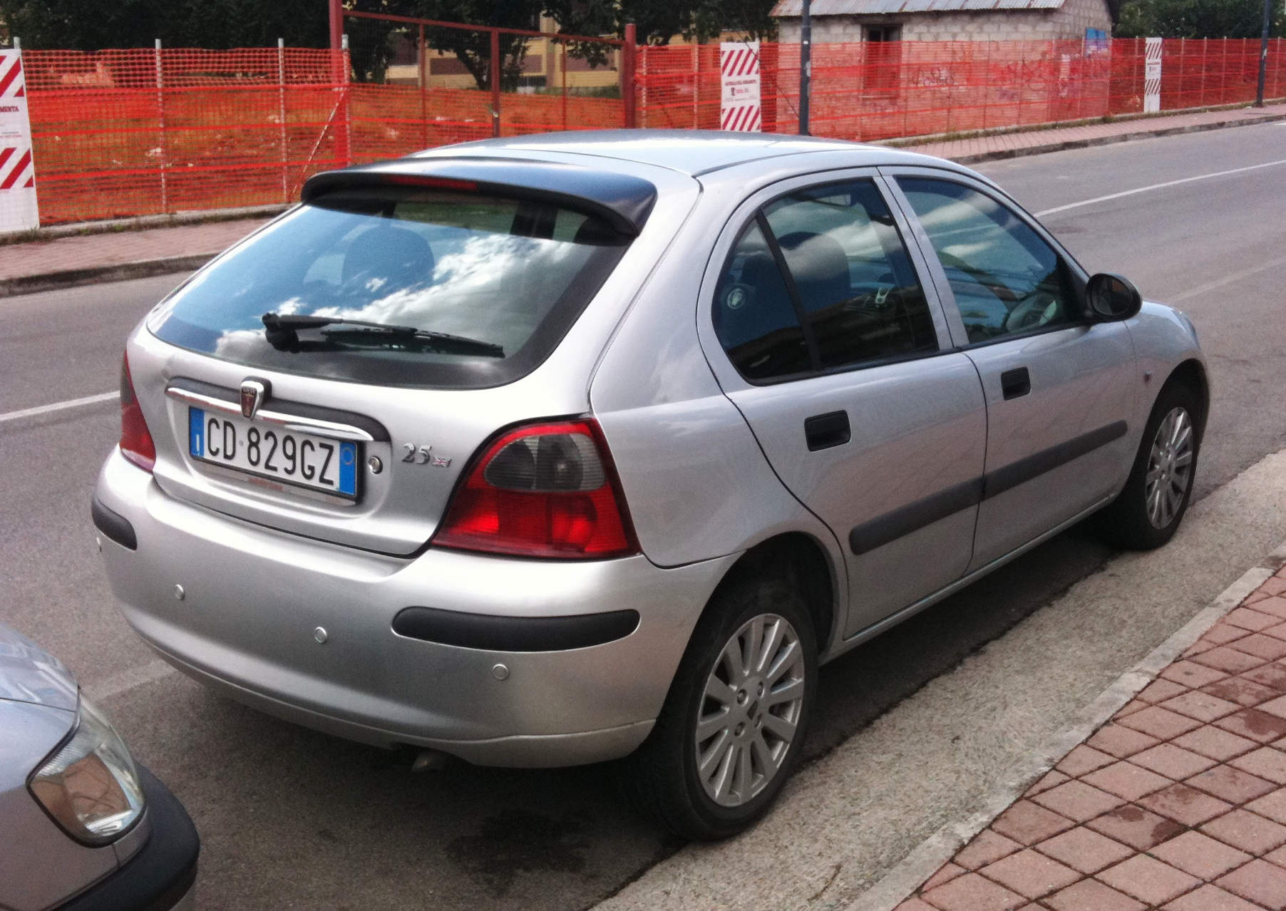 Rover 25 5-door rear in Avellino